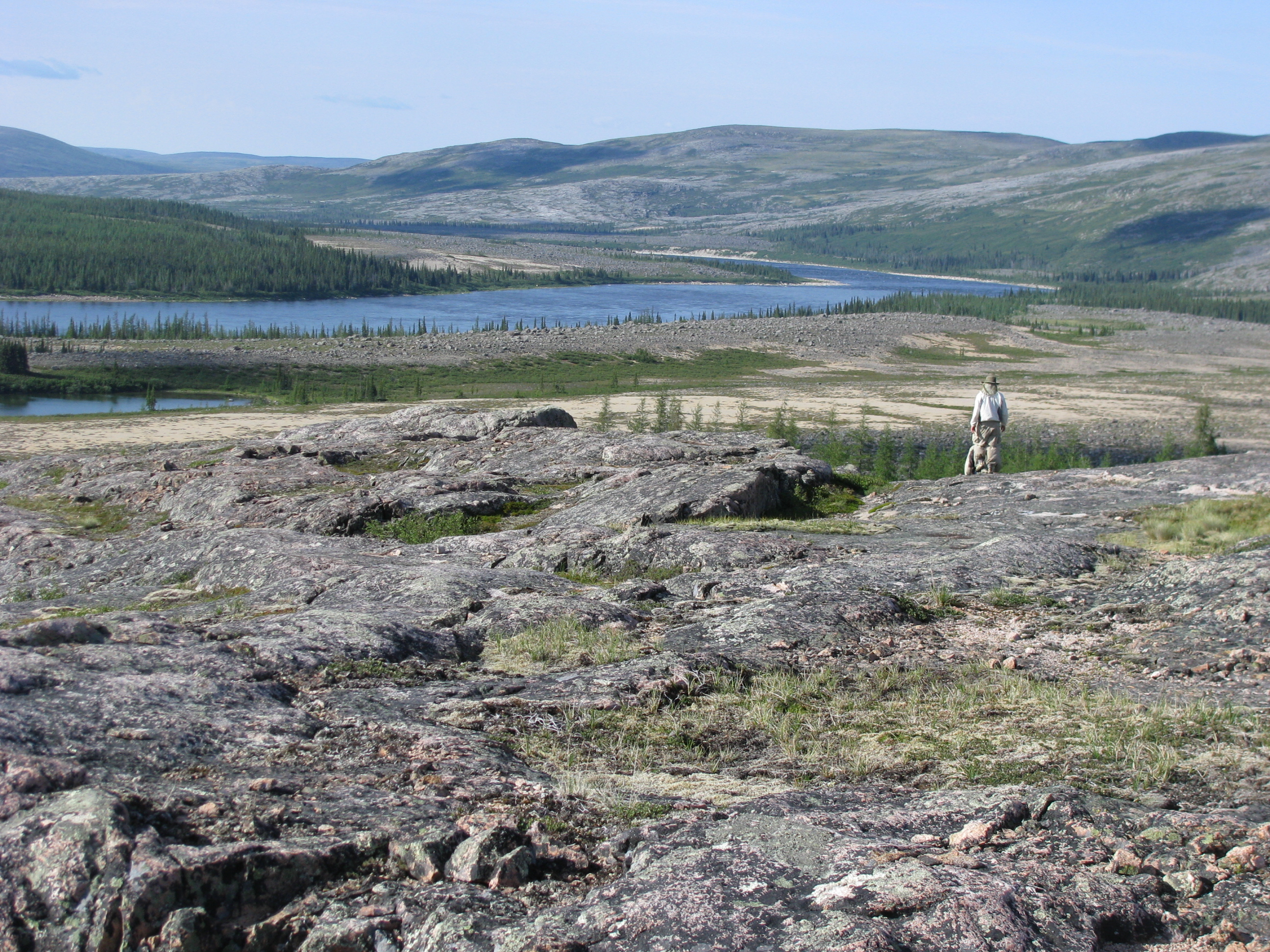 George River, Quebec